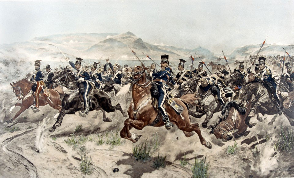 The Charge of the Light Brigade by Richard Caton Woodville Jr., oil on canvas, 1894. Commissioned by the Illustrated London News, the artist completed The Charge of the Light Brigade as part of a commemorative series portraying famous British battles. The painting, which depicts the head of the charge with Lord Cardigan alongside the 17th Lancers, is now part of the permanent holdings of the Palacio Real de Madrid, the official residence of the Spanish royal family.